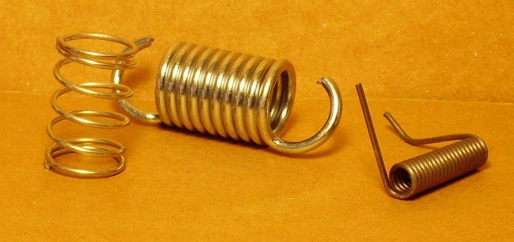 Examples of three common spring types, Compression spring, Extension spring, and Torsion spring